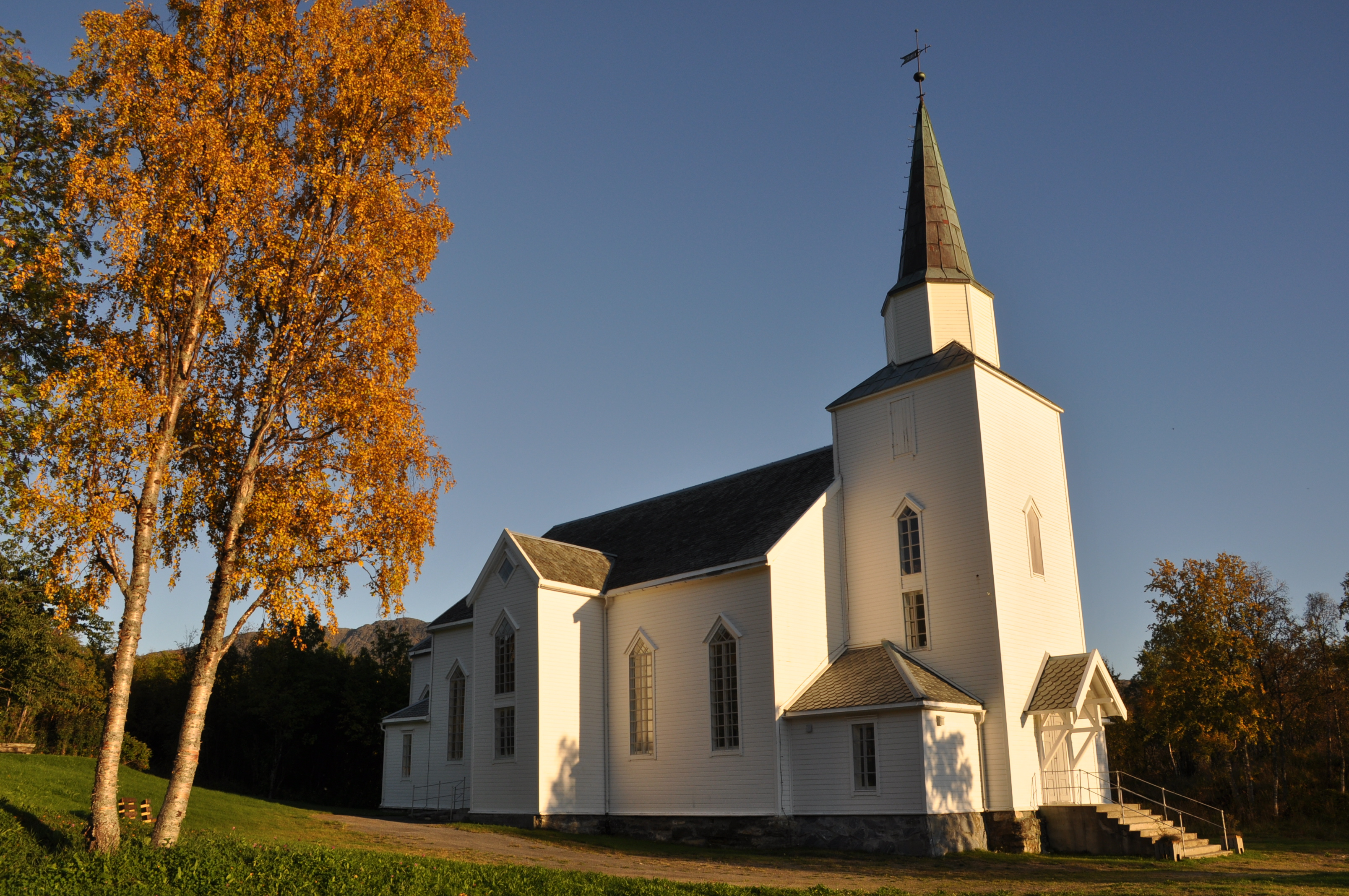 The church in Dyroey , Troms. Built in 1880. architect: Håkon Mosling Coordinates: 69°2′20″N 17°29′38″Ø